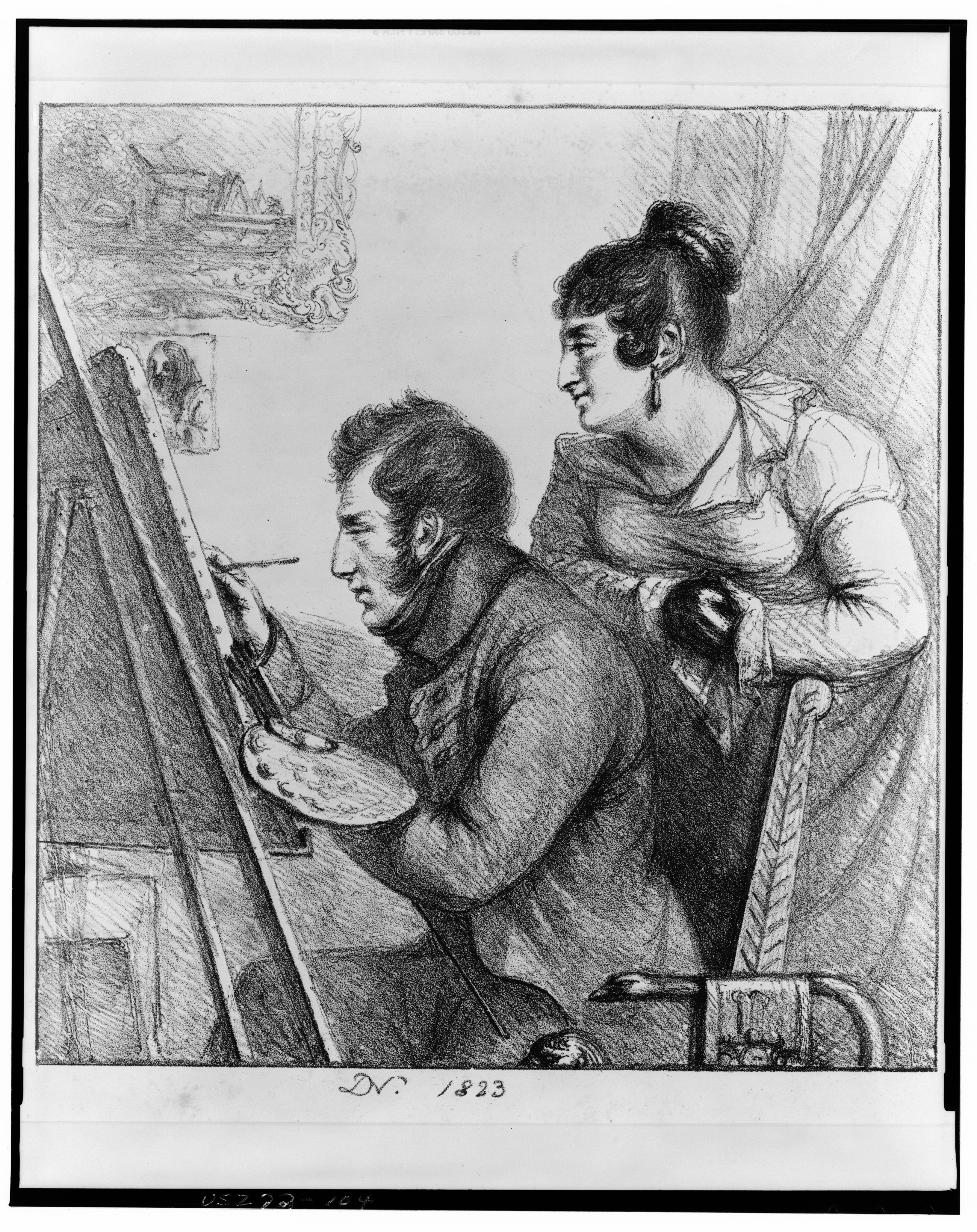 Self-portrait by French engraver, writer, art historian and administrator Vivant Denon (1747-1825)